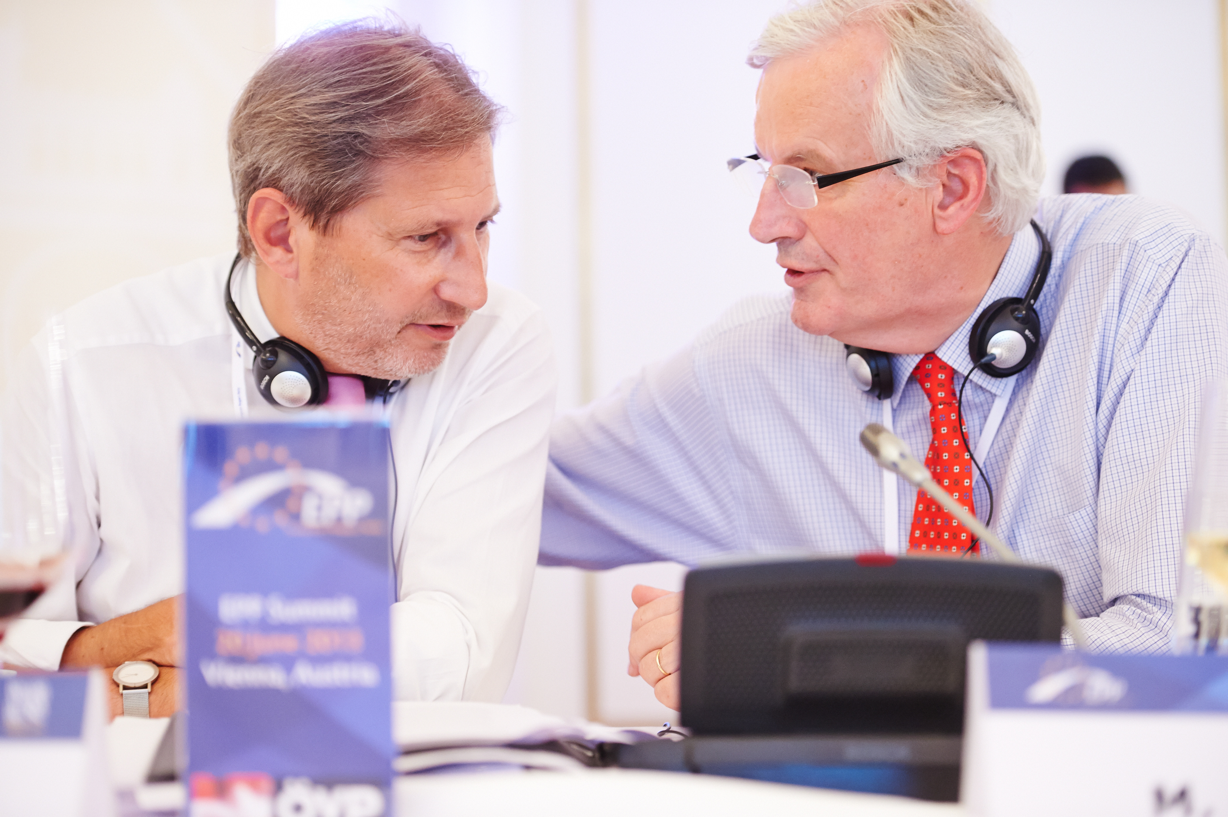 Members of the Presidency